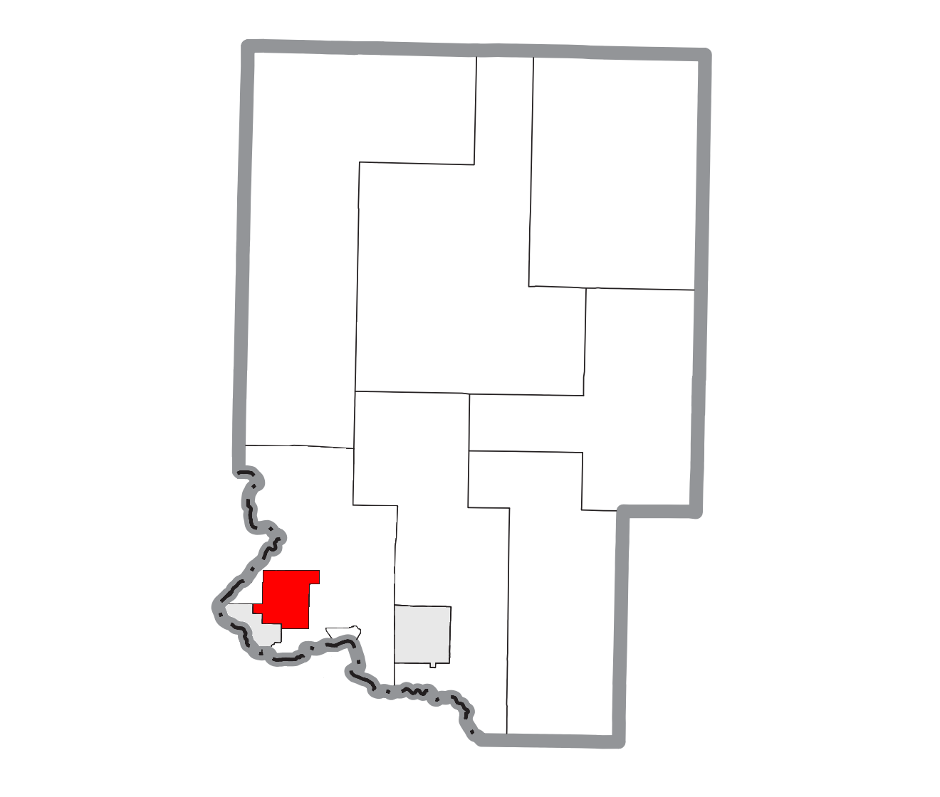 Iron Mountain, Michigan